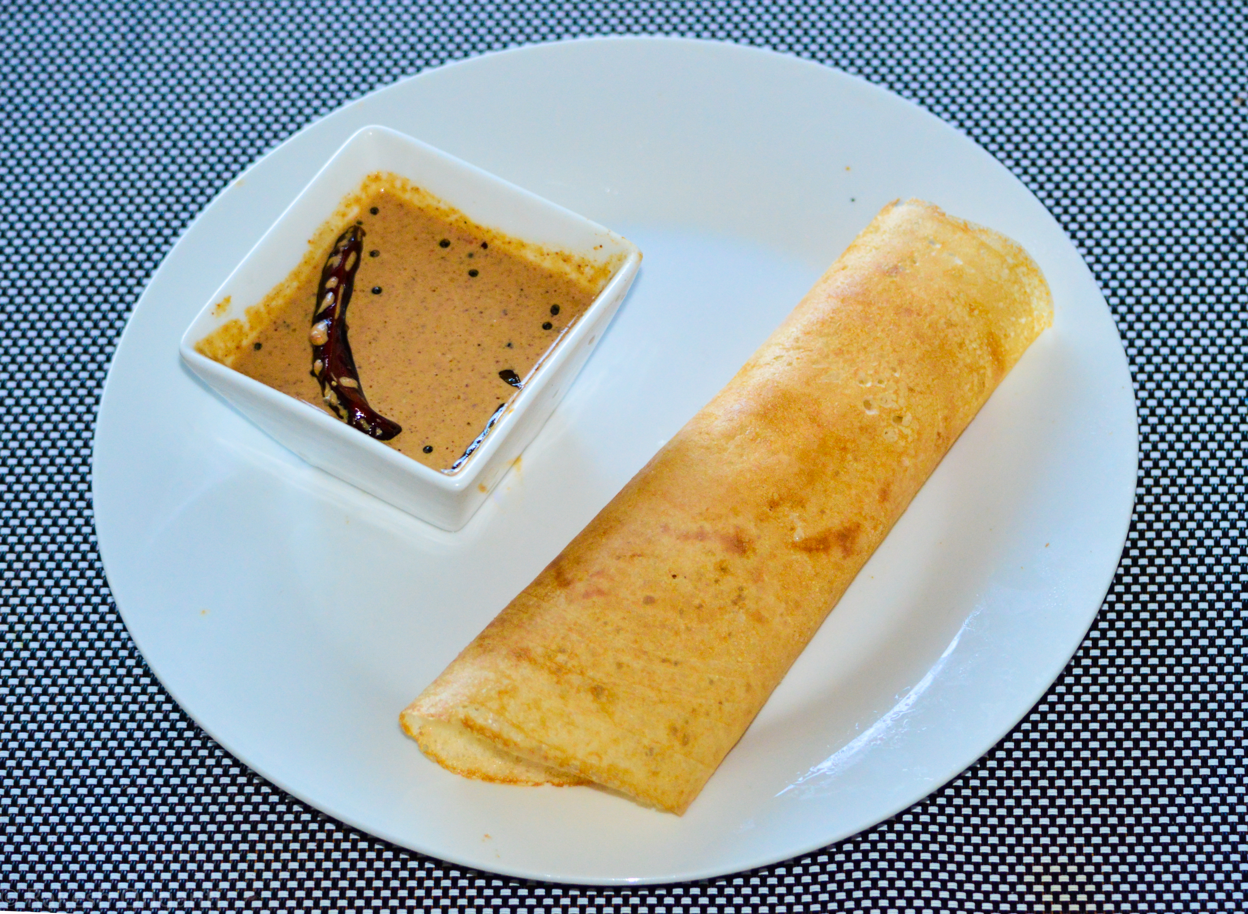 Dosa with chutney in south indian style